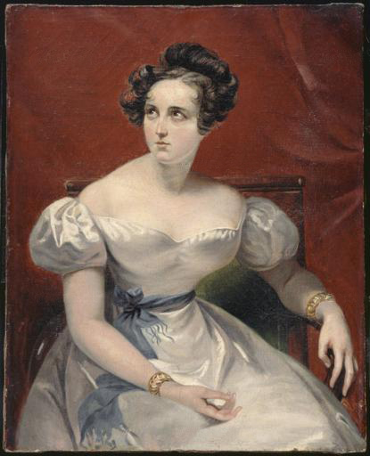 Portrait of Harriet Smithson (1800-1854) by Dubufe, Claude-Marie (1790-1864). Irish actress, wife of the composer Hector Berlioz. 1830. Oil on canvas, 40.5 x 32.5 cm. Inv. 1938F308. Located at the Musee Magnin, Dijon, France.